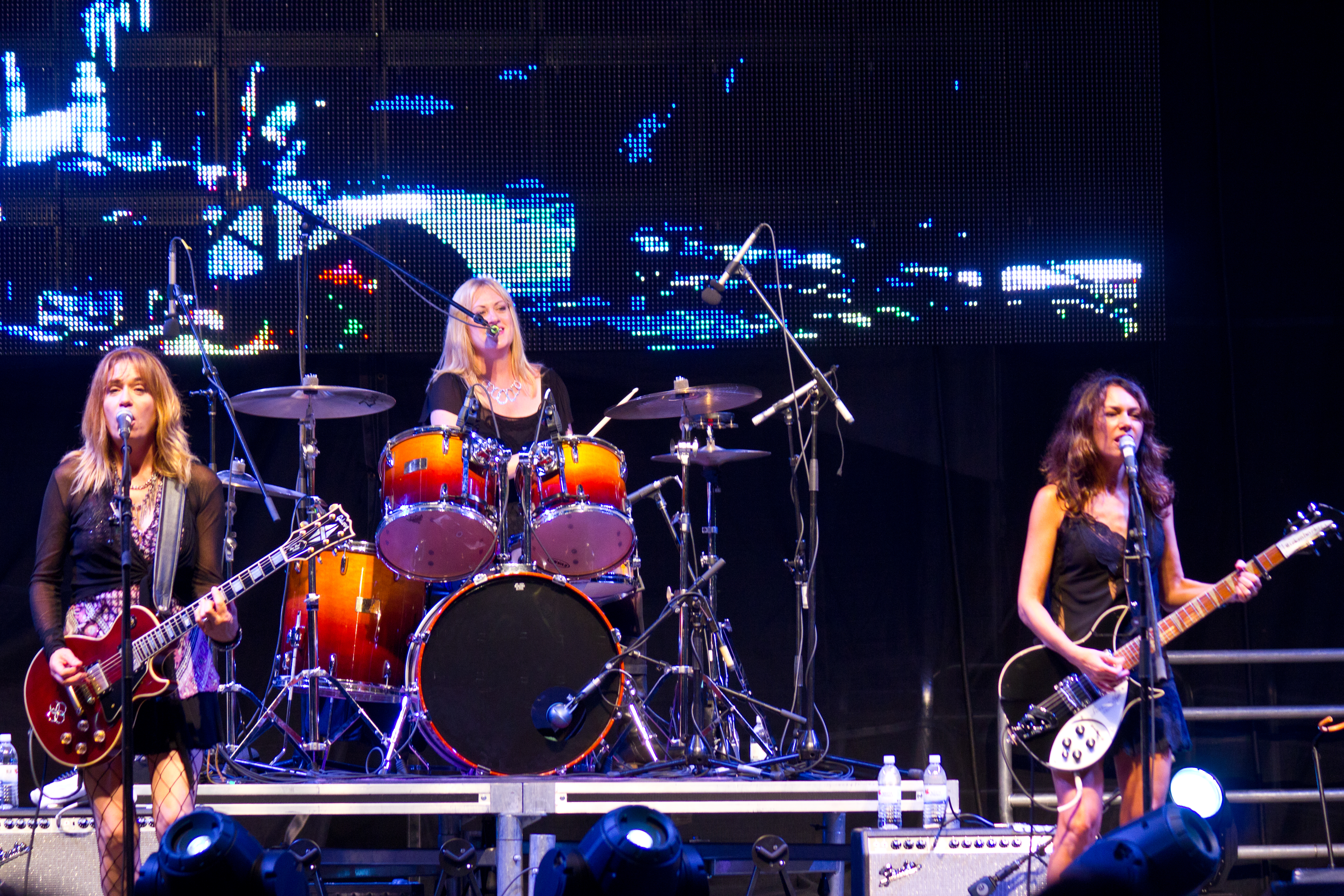 The Bangles performing at the 2012 Festival of Friends